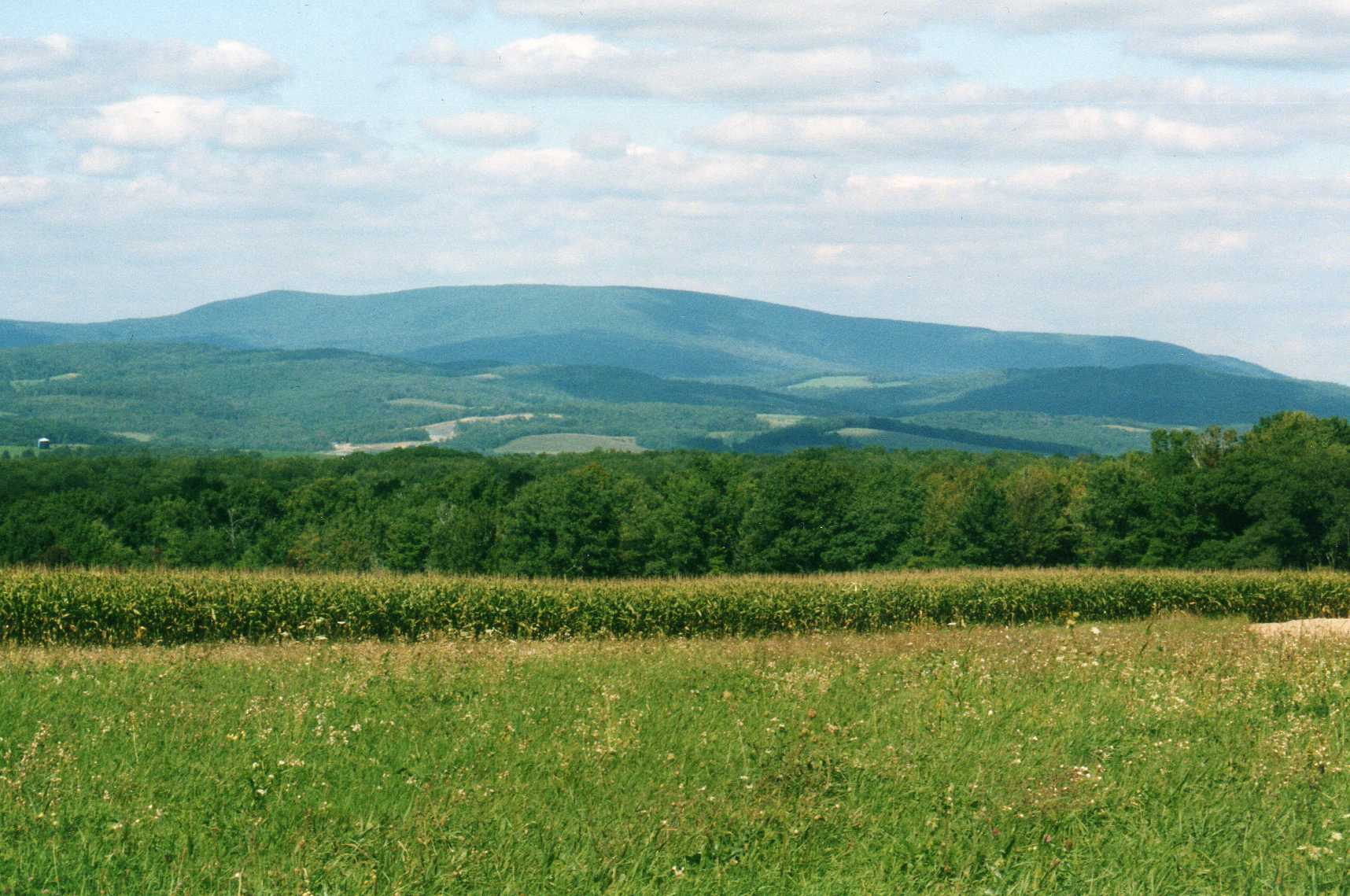 Blue Knob Mountain, 3,146 ft. photo by: Joe Calzarette